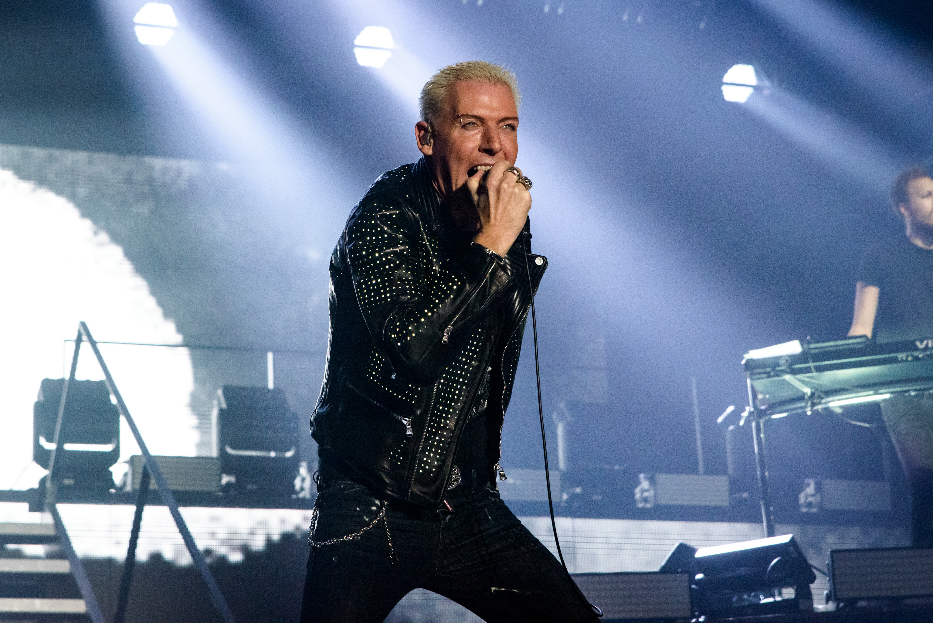 Scooter Live @ Munich 2016